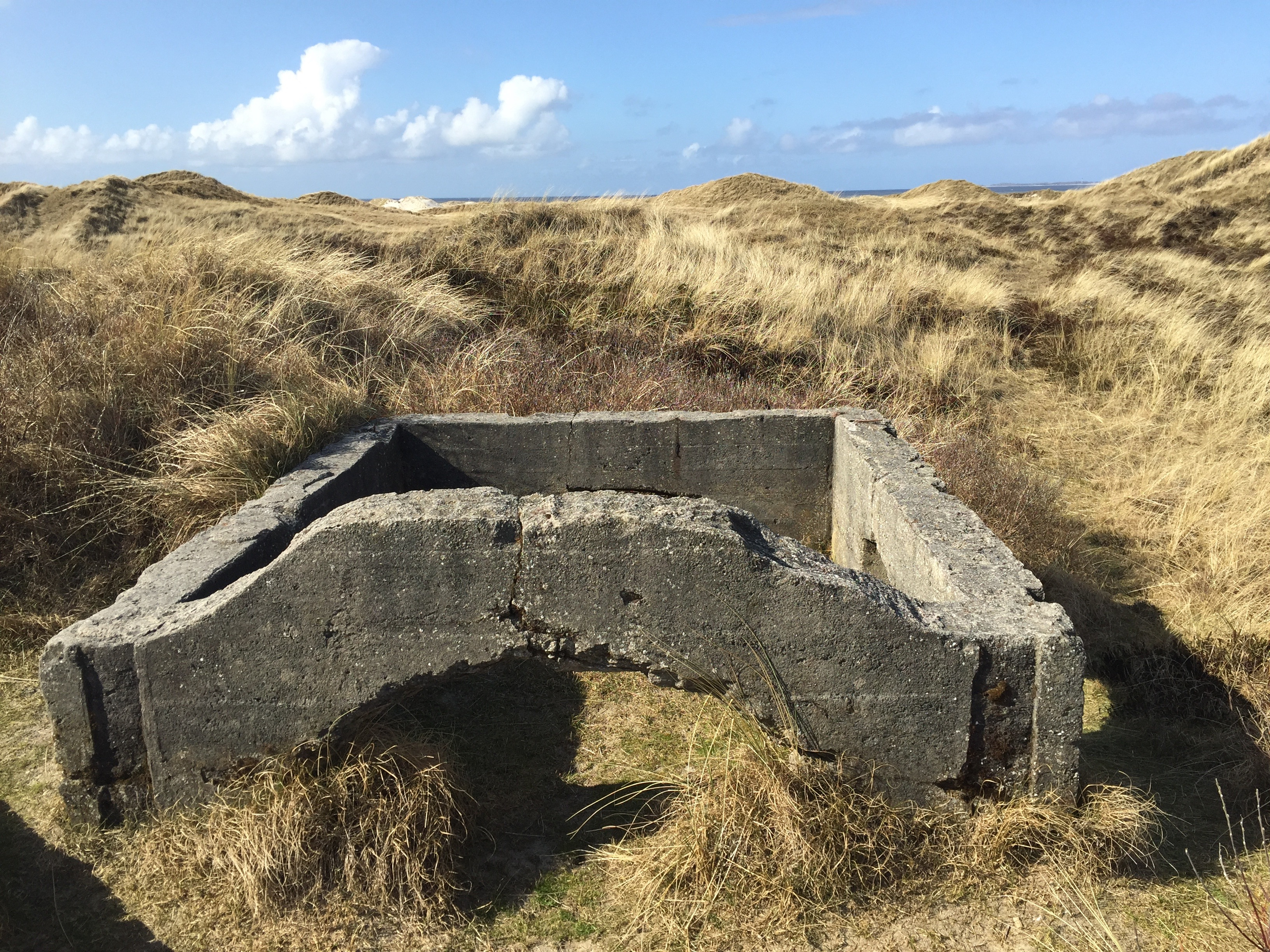 The making of this document was supported by the Community-Budget of Wikimedia Germany. Am westlichen Fuß der Düne des Leuchtturms steht noch die Ruine des Gasbunkers, in dem der Betriebsstoff bevorratet wurde.